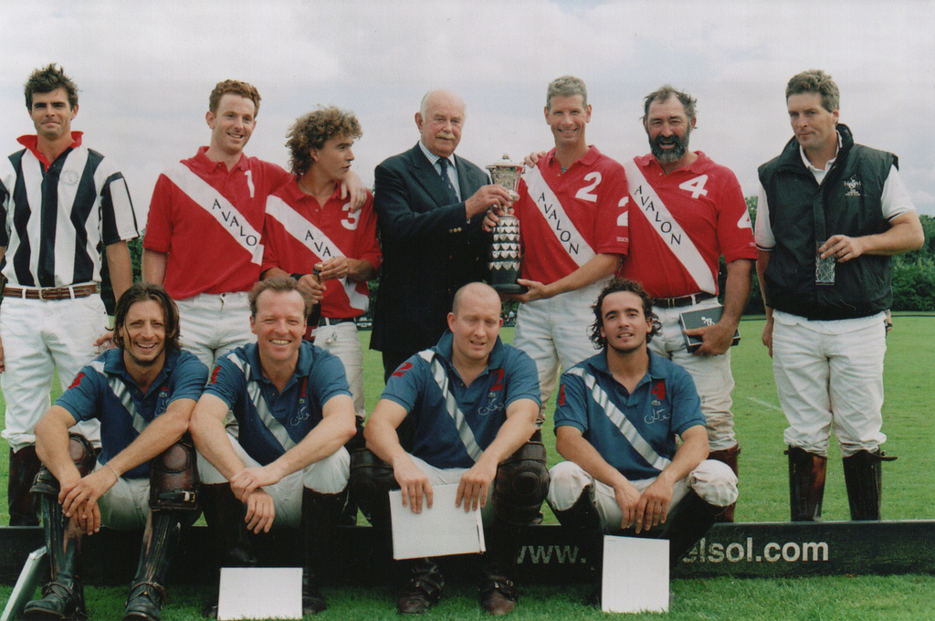 2008 Roehampton Trophy winners Avalon: Christopher Caesar, Nico Talamoni, Jeffrey Schlesinger and Greg Keyte. Runners up Tchogan. Umpires Peter Wright and Adolfo Casabal.